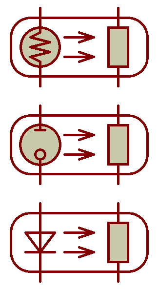 Types of vactrols by driver: incandescent bulb, neon lamp, LED